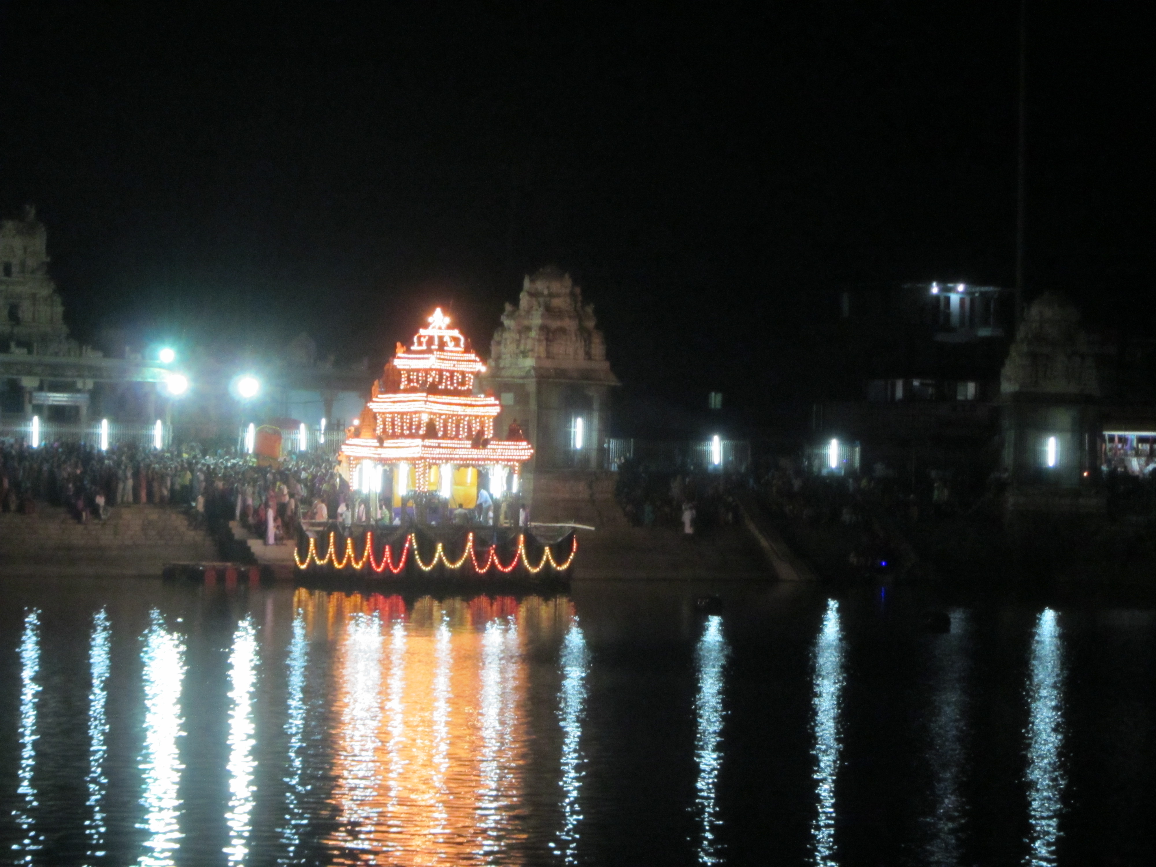 The float festival of Lord Nageswara swamy at Mahamakam Tank in Kumbakonam, Tamil Nadu.